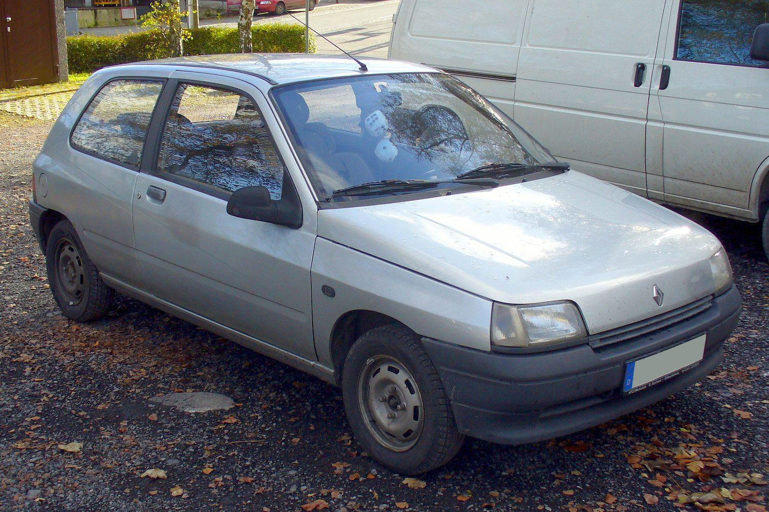 Renault Clio I Phase I